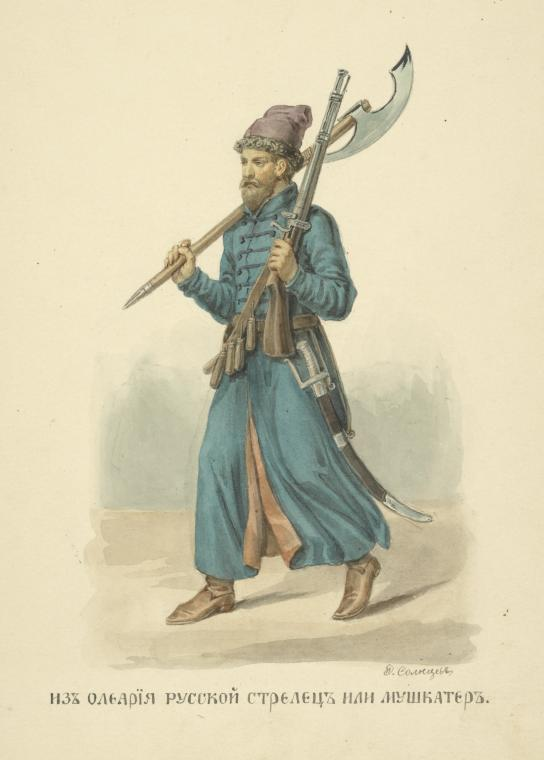 A Russian strelets or a musketeer based on Adam Olearius's public...